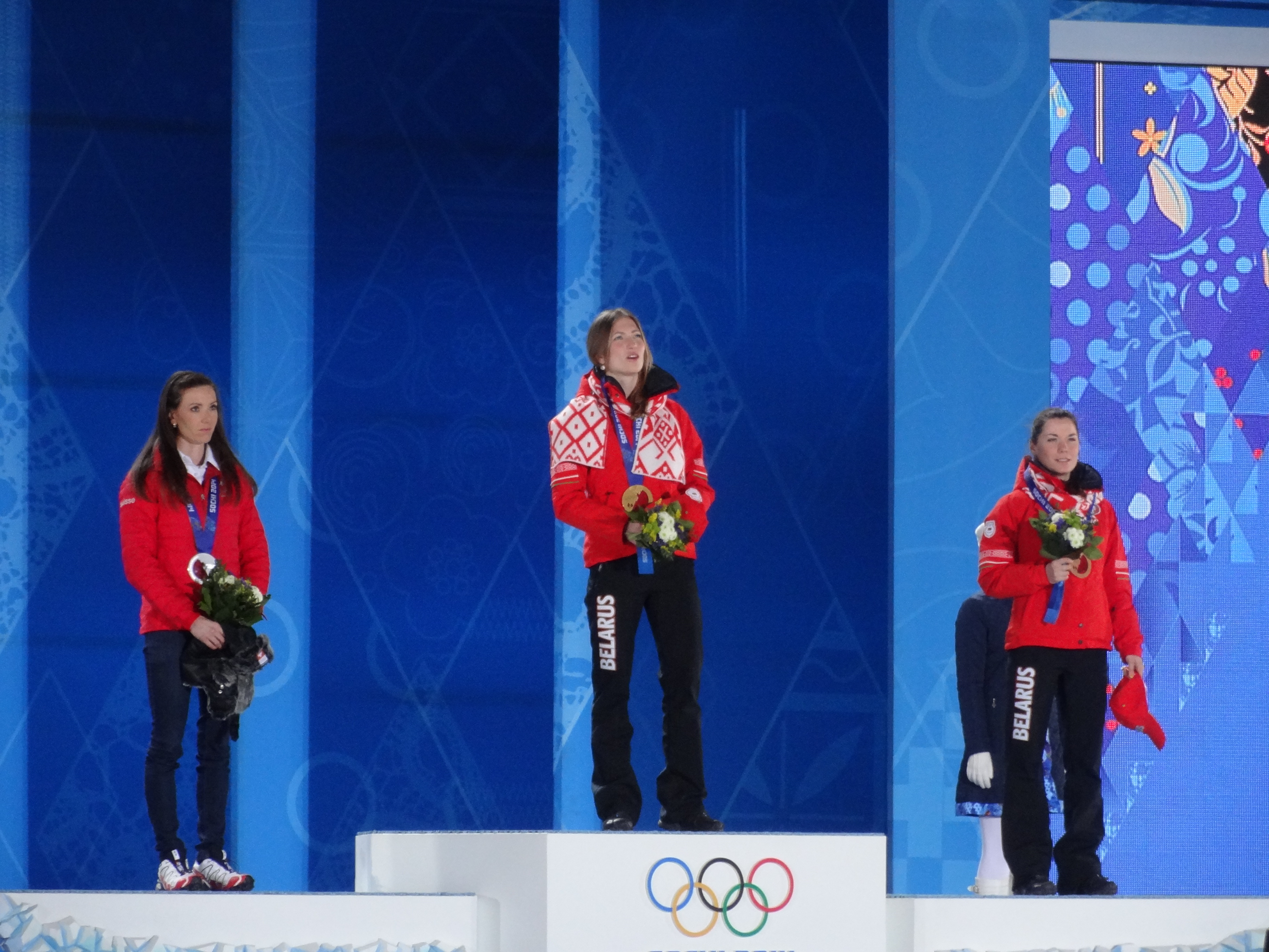 Women's 15km Individual - Biathlon - Sochi 2014. Gold: Darya Domracheva, Belarus. Silver: Selina Gasparin, Switzerland. Bronze: Nadezhda Skardino, Belarus.